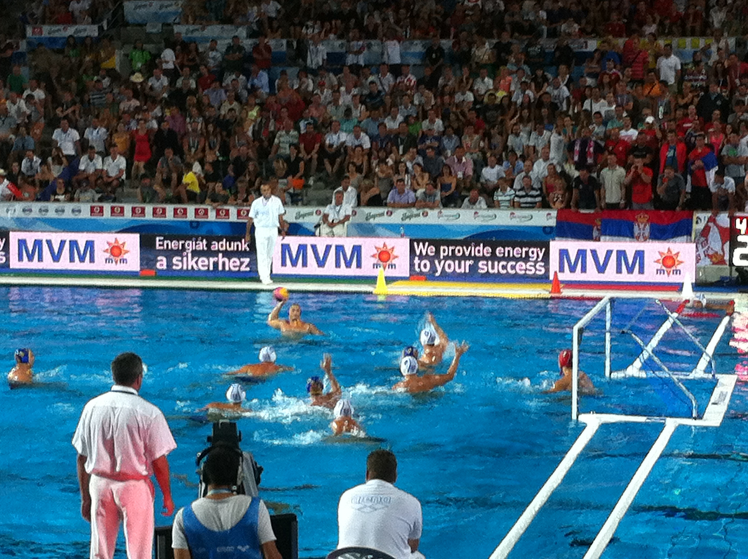 2014 European Water Polo Championship, Serbia vs Montenegro semifinal game 10:9